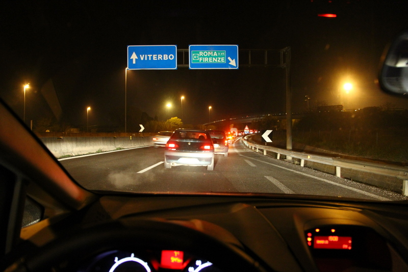 The SS 675 highway Terni-Orte-Viterbo near A1 motorway interchange at Orte (42°27′46″N 12°25′18″E / 42.46272°N 12.42165°E)